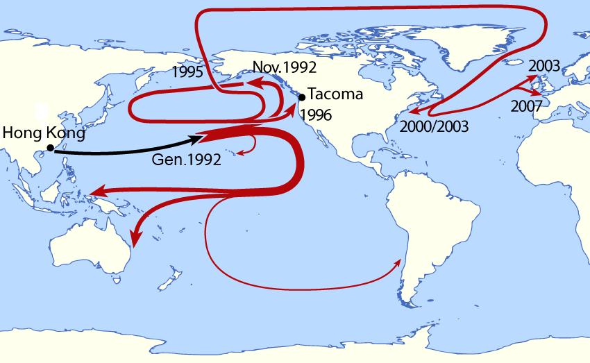 Travel of the Friendly Floatees.